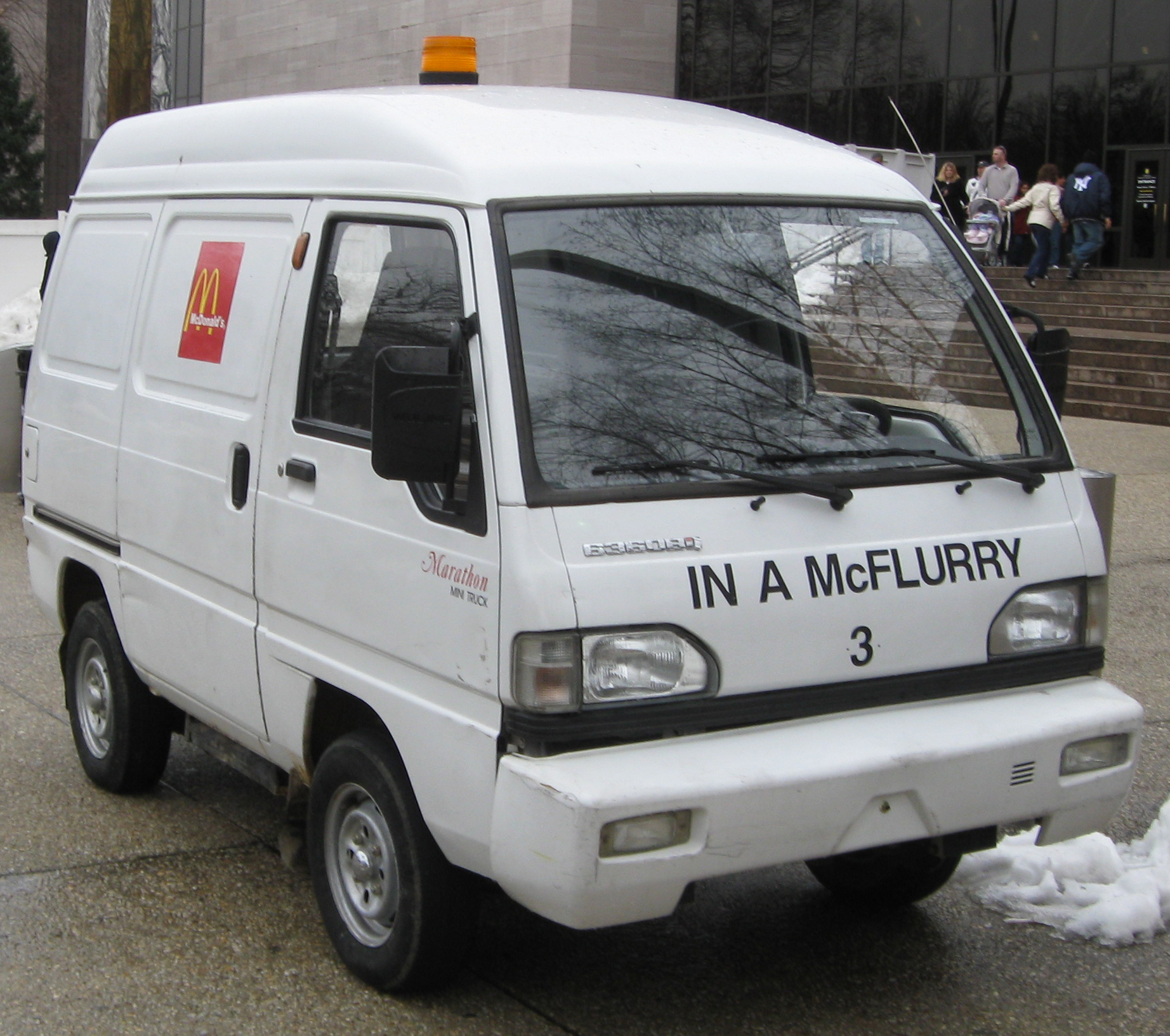 Marathon Mini Truck (actually a Wuling LZW 6360) photographed in Washington, D.C., USA.